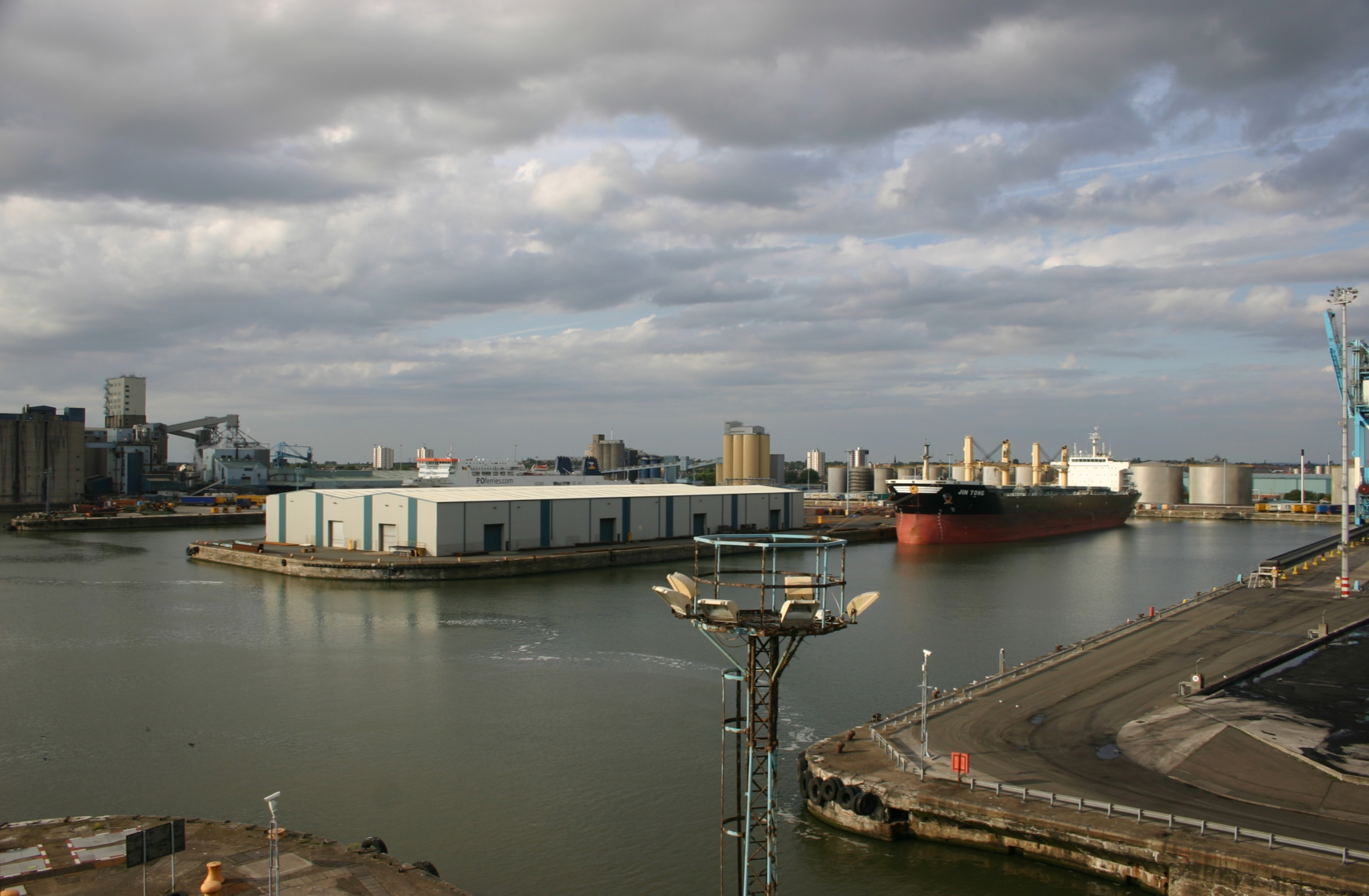 Overview of Gladstone Dock, June 2009. From right to left Branch 1, 2 and 3. Branch 3 is a former graving dock, now used by P&O Ferries for their daily service Liverpool - Dublin.